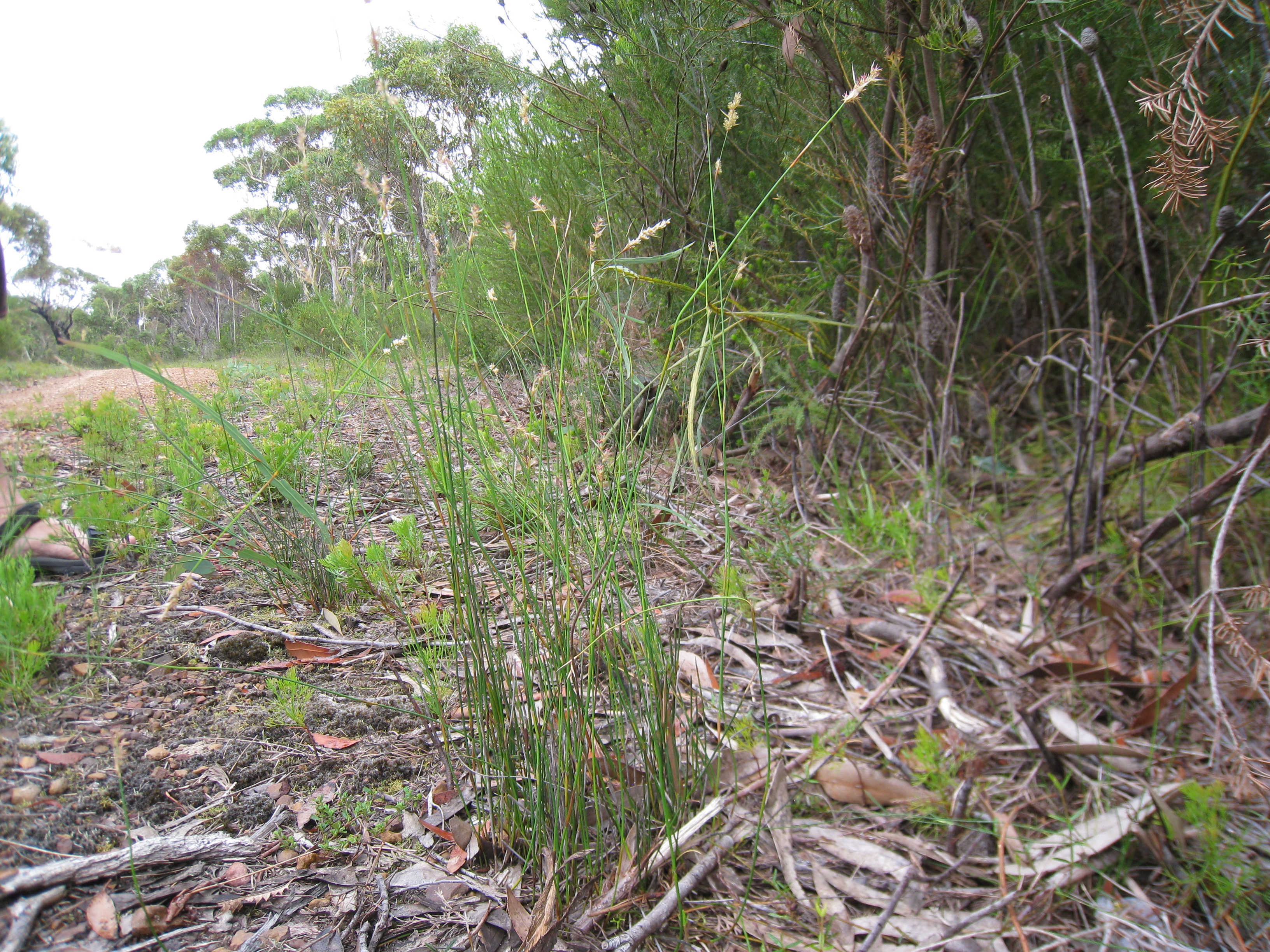 Growing as a tuft, a Lepyrodia scariosa. Dharawal Nature Reserve, NSW Australia, January 2011.